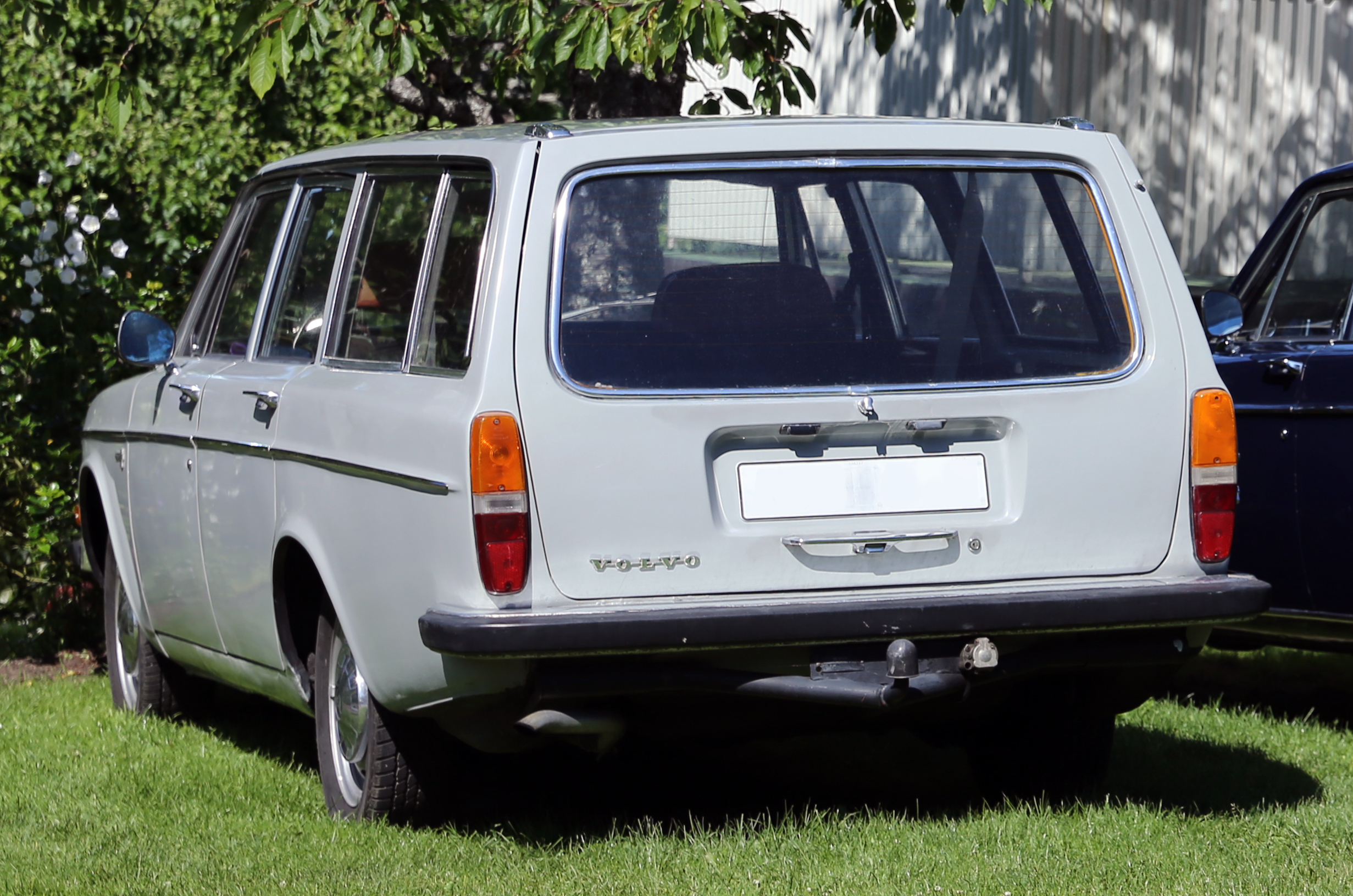 1970 Volvo 145, early version with the divided rear side windows. Model code 1451341 T, 4-speed B20S engined model with 82PS.